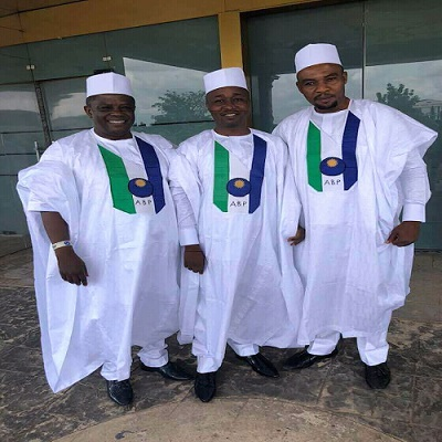 Conventions ABP